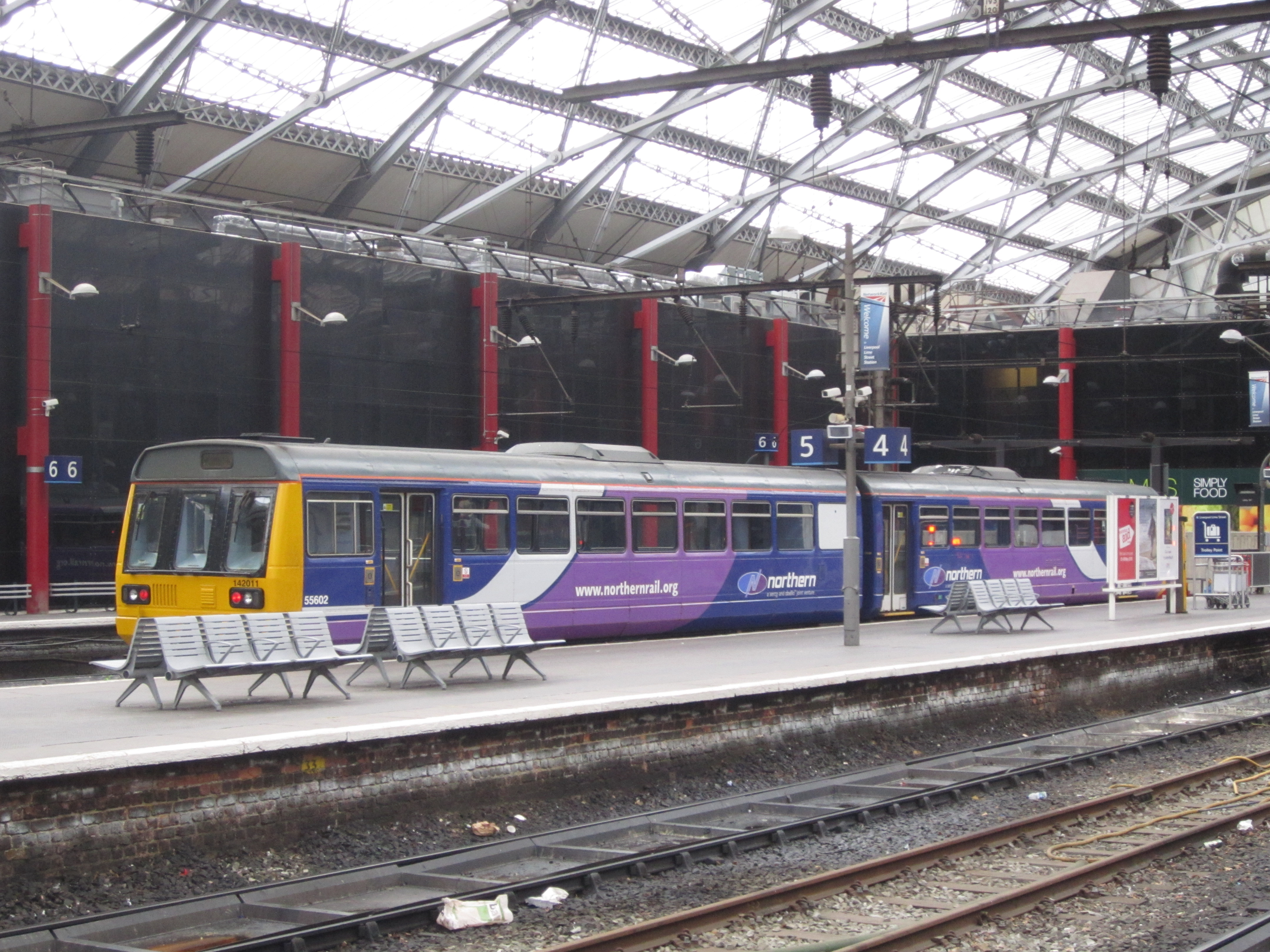 Photo taken at Liverpool Lime Street railway station, England.